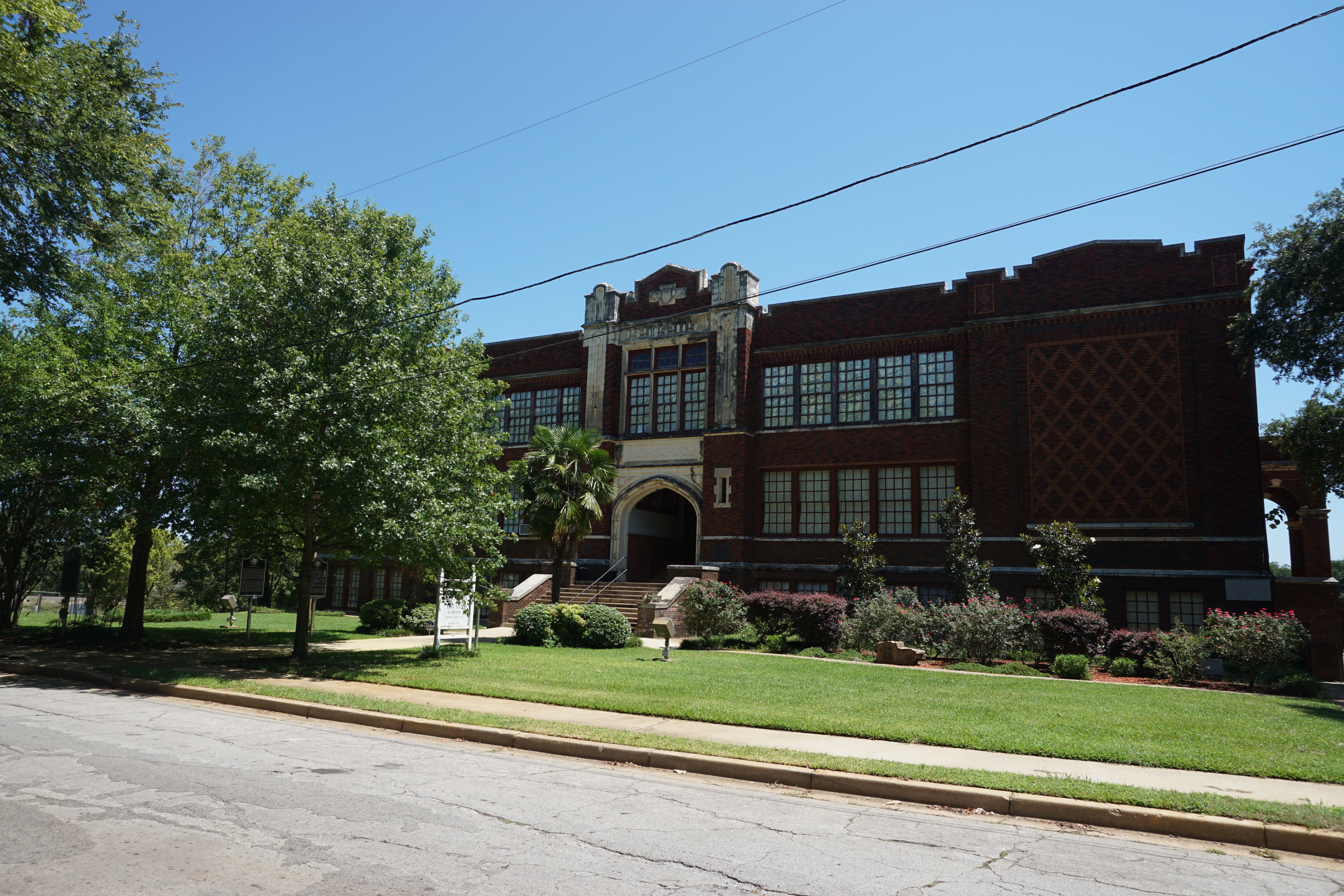 The Museum for East Texas Culture, the former Palestine High School, in Palestine, Texas (United States).